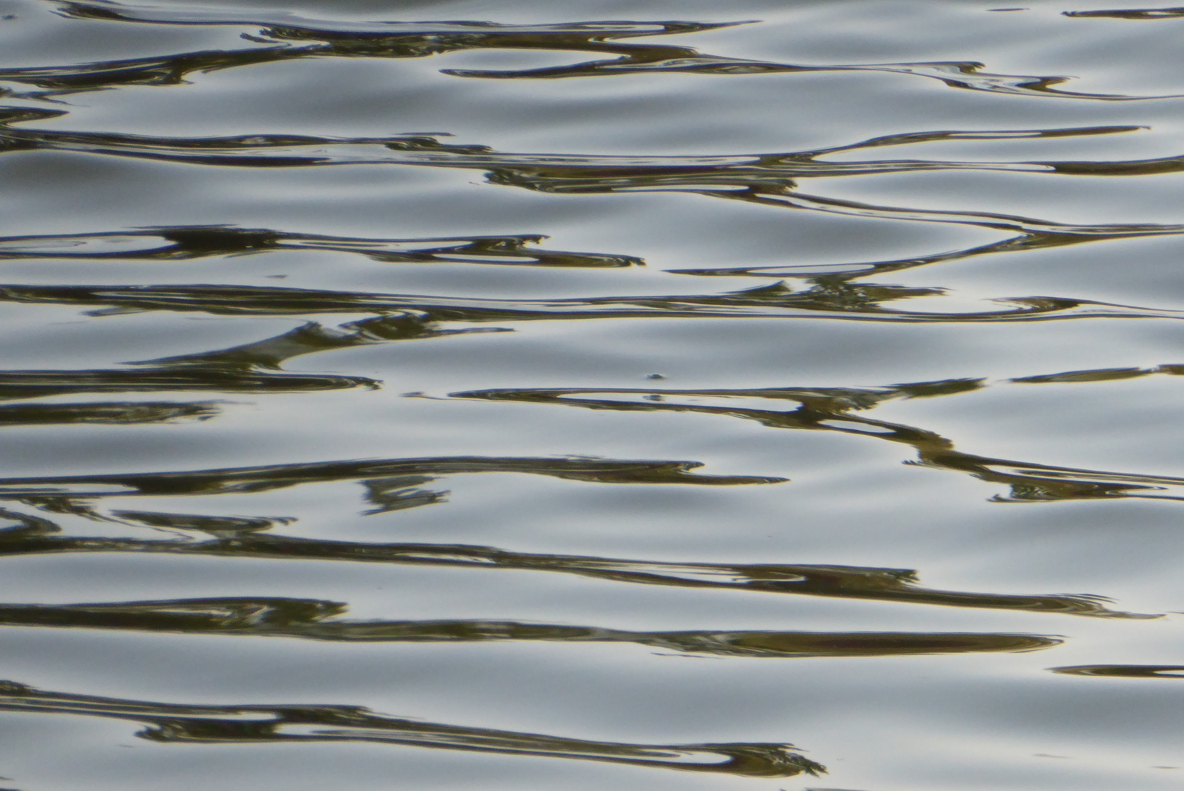 Waves in the water of Ramat Gan, National Park, Ramat Gan